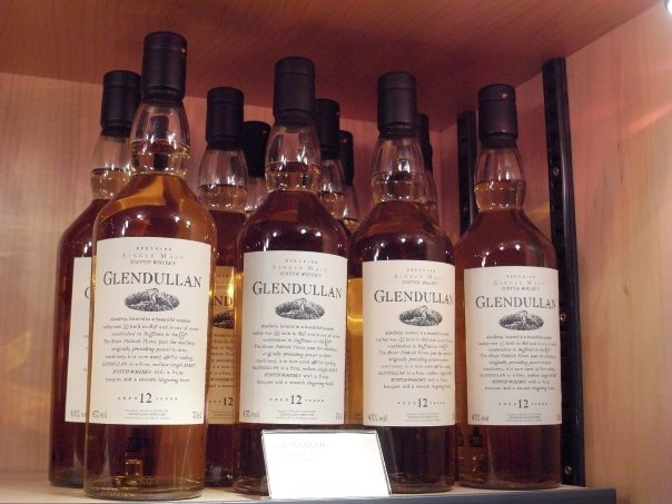 Glendullan 12 year old